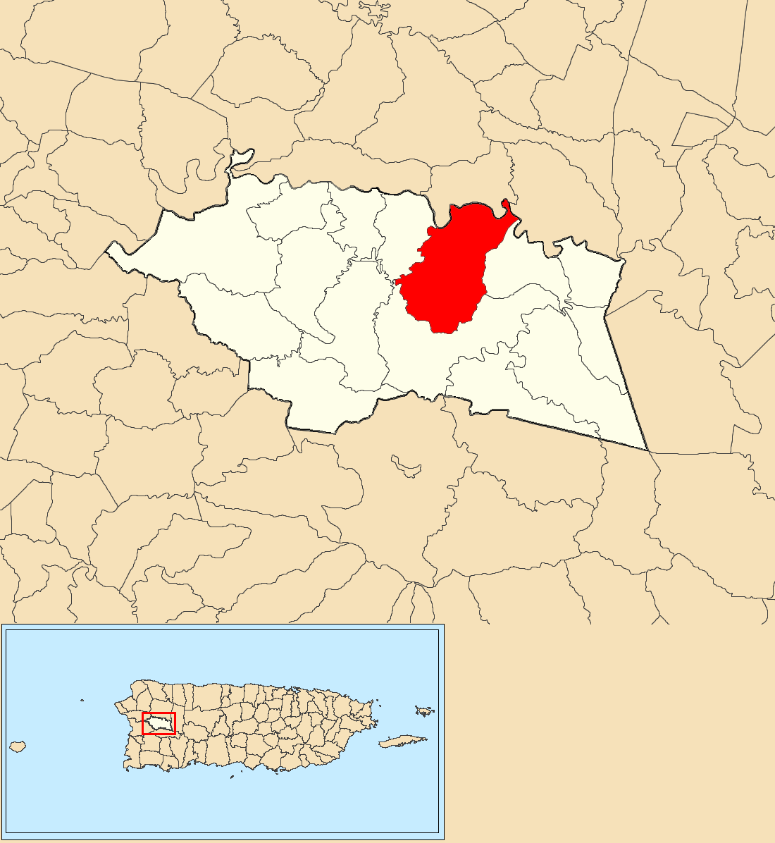 Buena Vista, Las Marías, Puerto Rico locator map